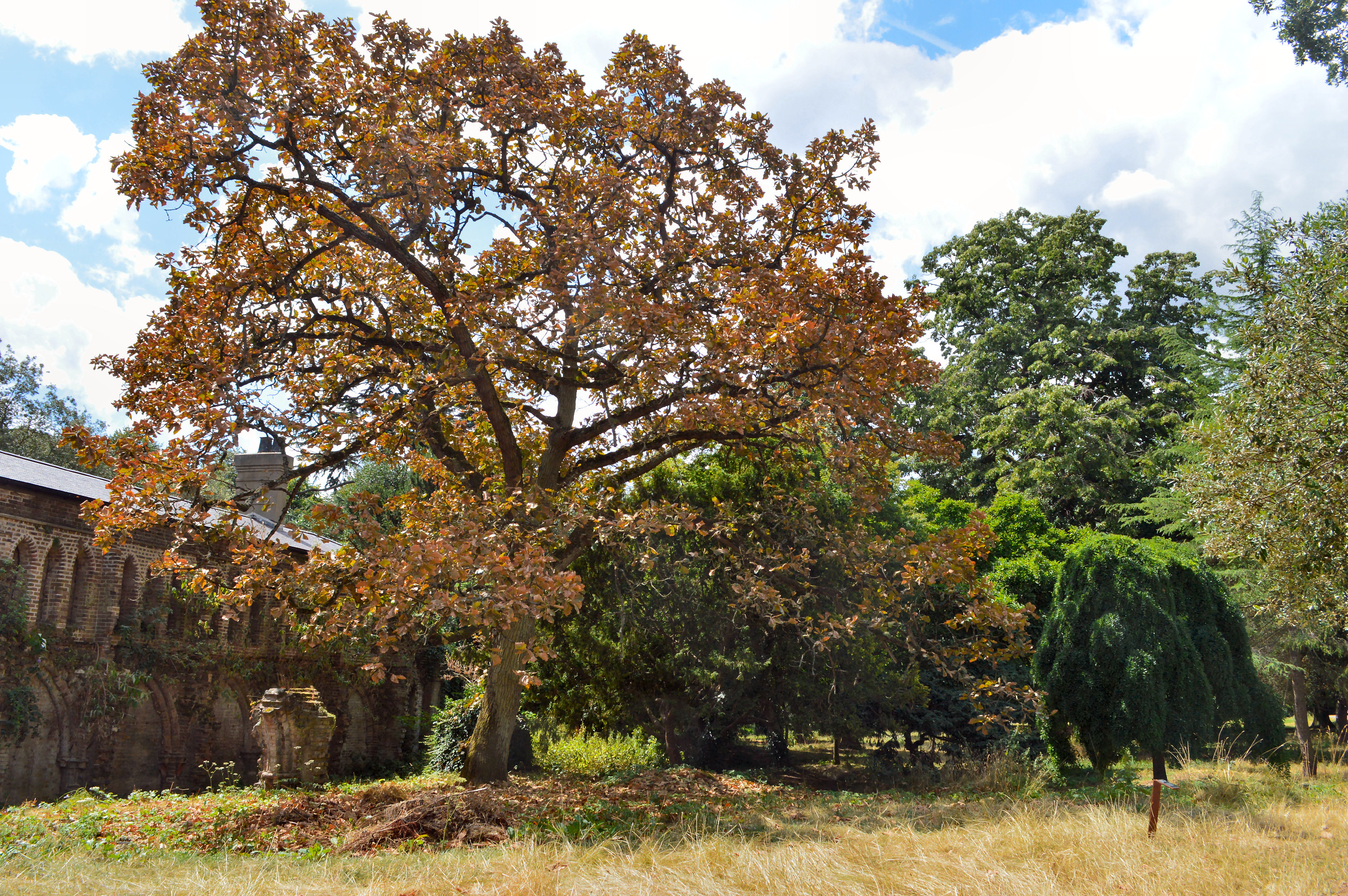 Gunnersbury, Japanese Gardens, Japanese Emperor Oak (Quercus dentata) with brown leafs, drought in July 2018.